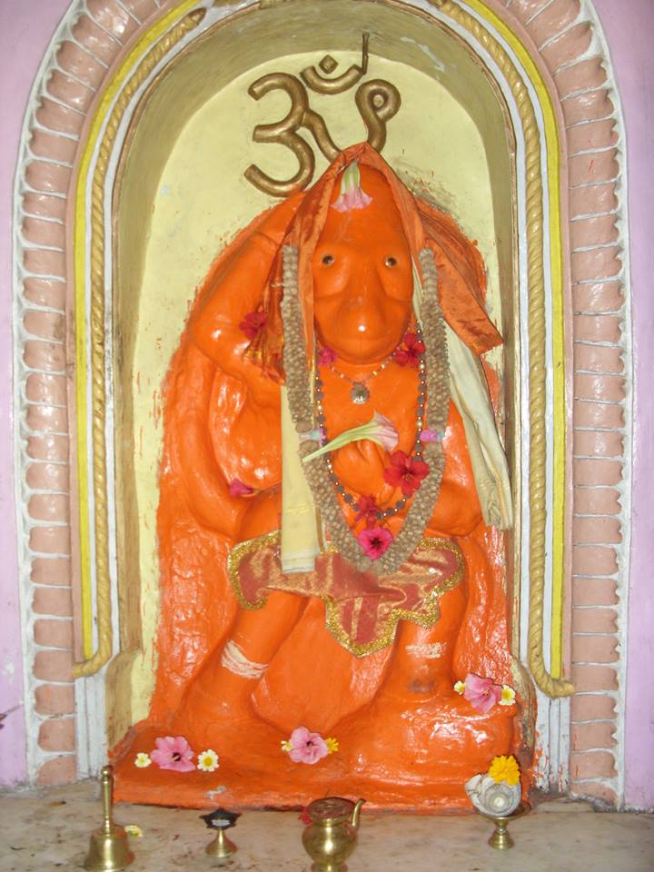 samarthsthapit maruti